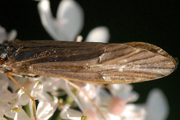 Molanna angustata from Commanster, Belgian High Ardennes .